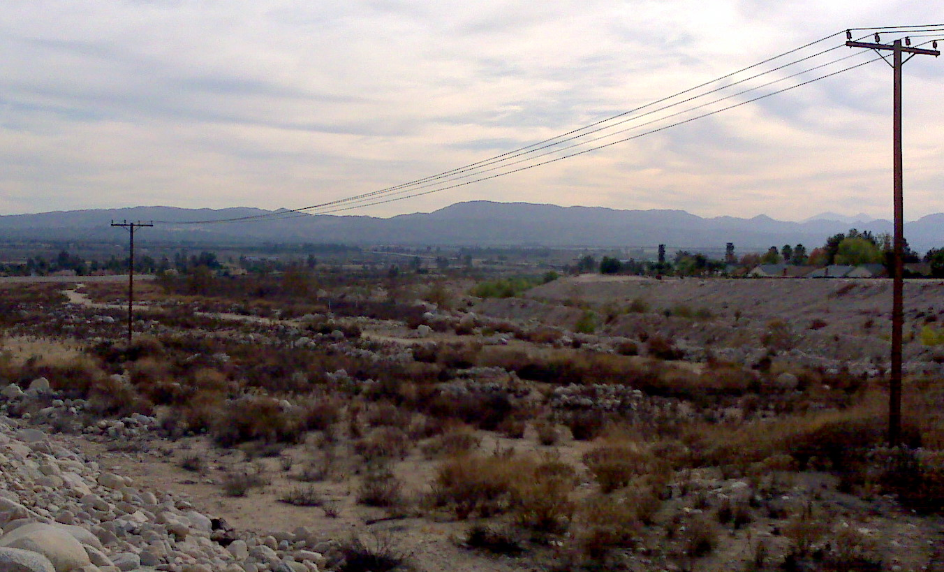 One of the tributaries feeding into the Santa Ana River